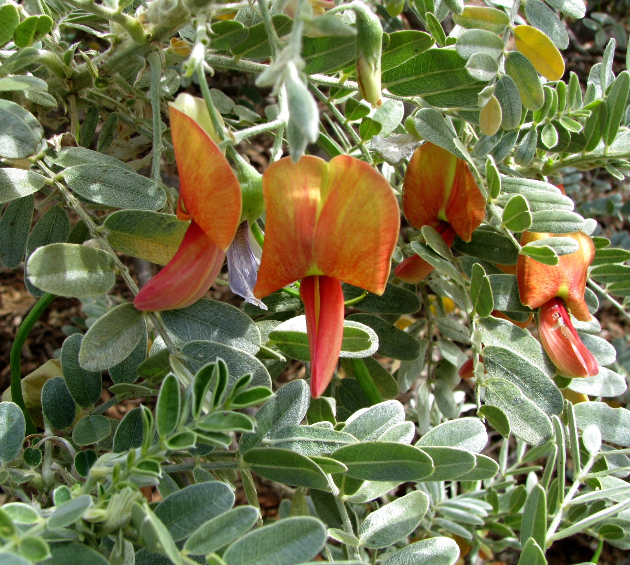 ʻOhai Fabaceae Endemic to the Hawaiian Islands Endangered Kaʻena Point, Oʻahu form Oʻahu (Cultivated) NPH00008